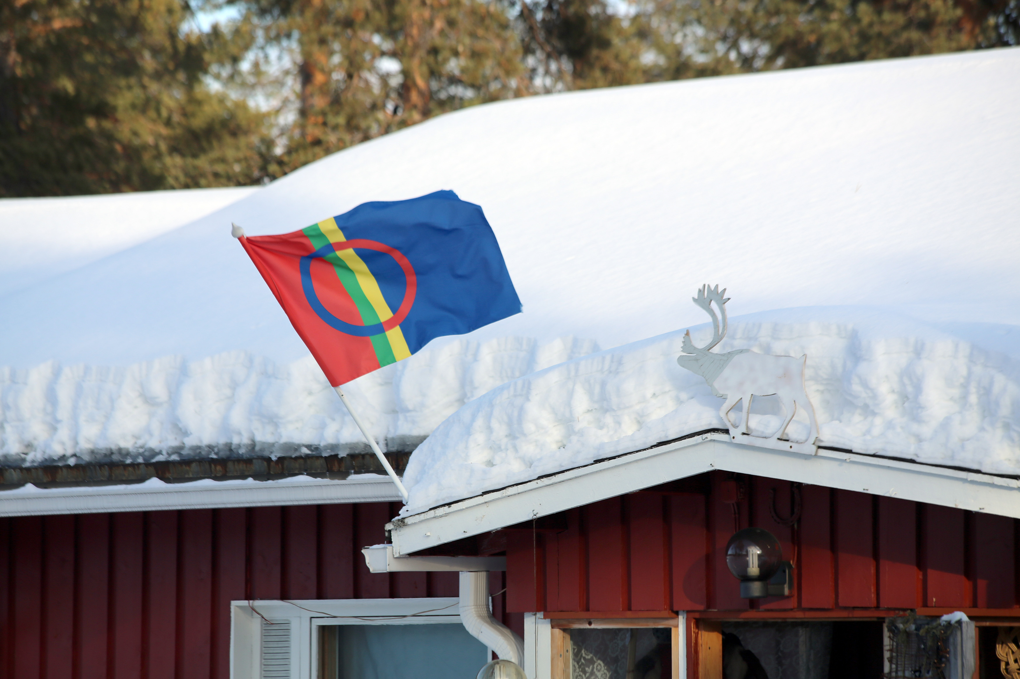 Sámi flag at a reindeer farm in Inari, Finland.